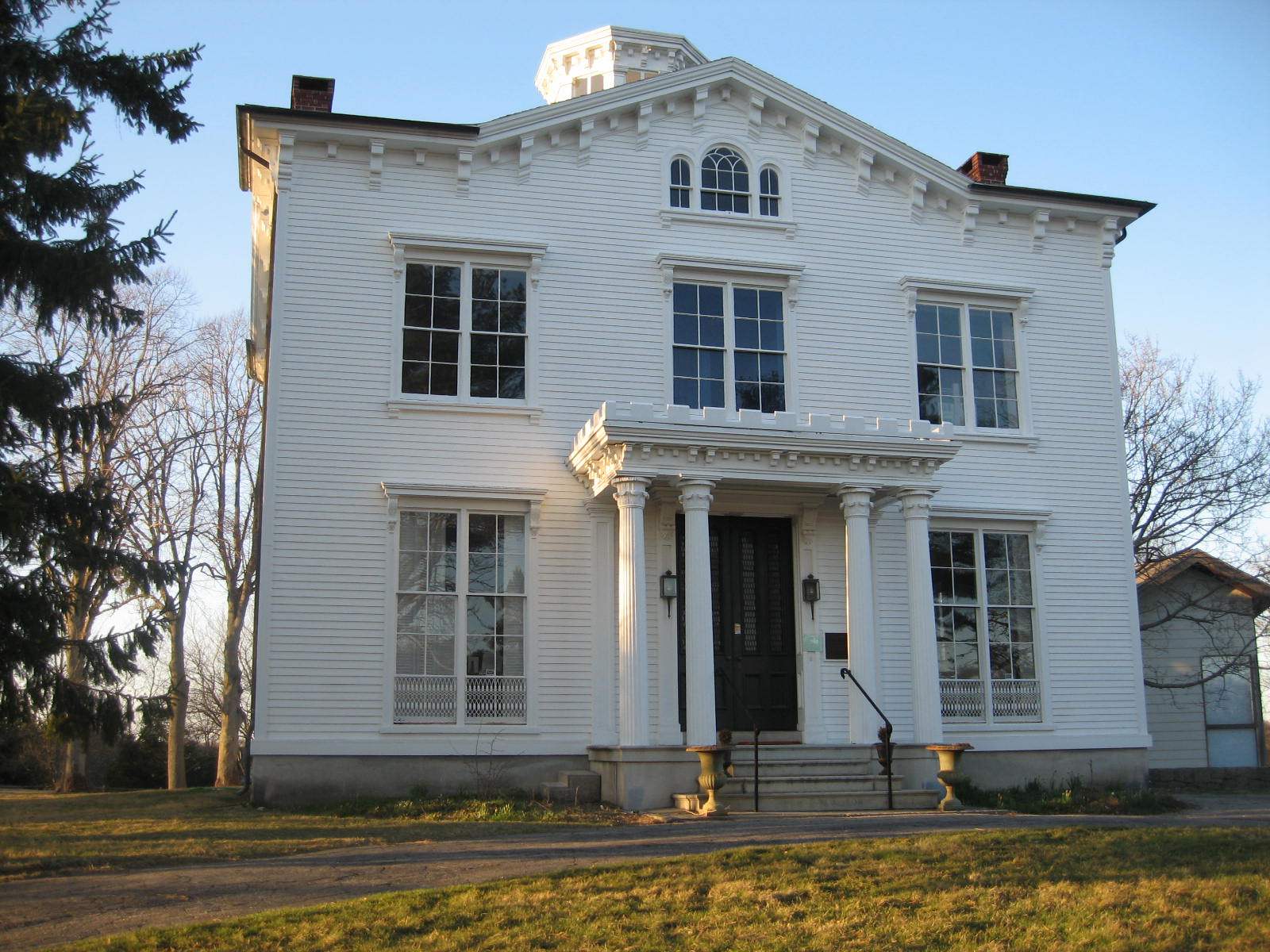 The Capt. Nathaniel B. Palmer House in Stonington, CT, USA. Front view, close.